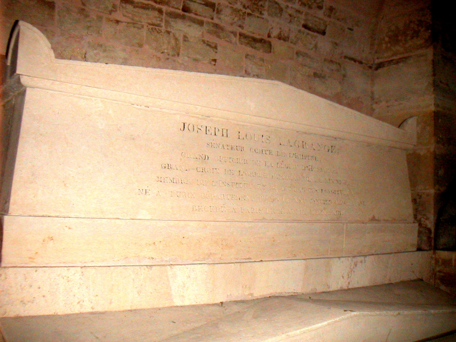 Lagrange's tomb at the Pantheon, Paris, France. Photgraphed in 2007.